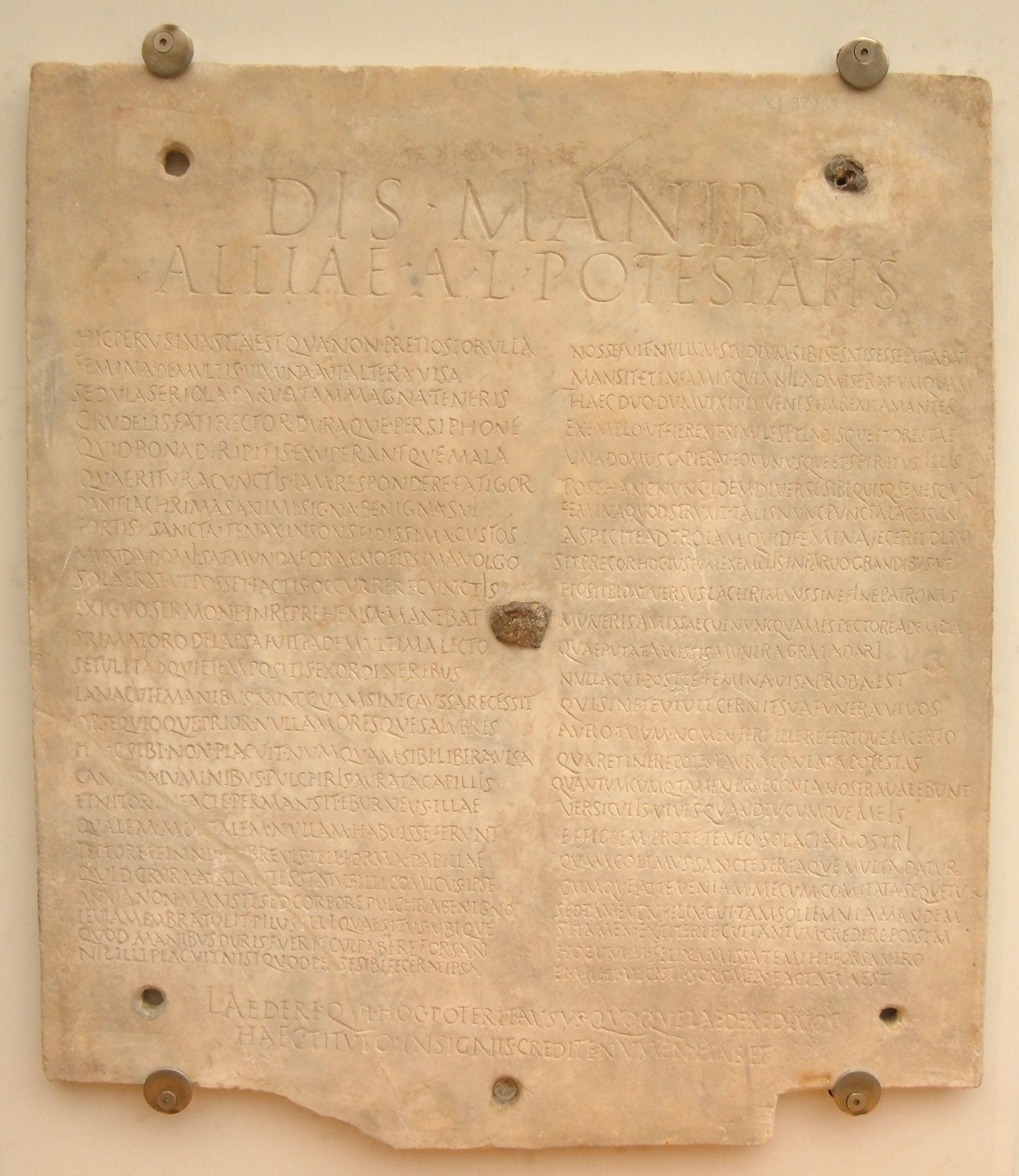 Sepulchral inscription of Allia Potestas (1st–4th century CE), found on a marble tablet in Via Pinciana, Rome, Italy in 1912.